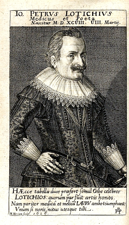 Johann Peter Lotichius (1598-1669), engraving by M. Merian 1626